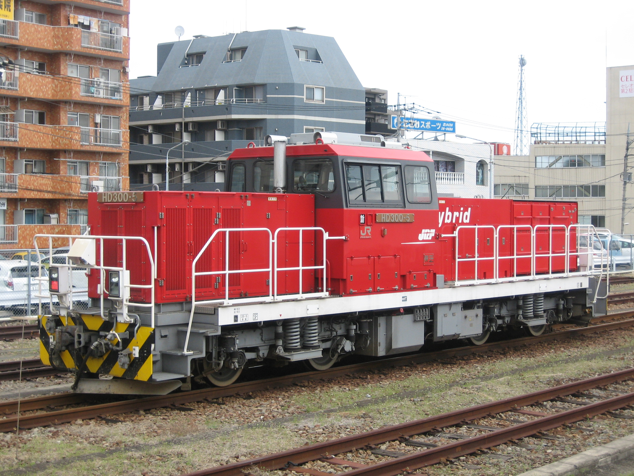 JR Freight Class HD300 hybrid diesel shunter HD300-5 at Hachioji Station